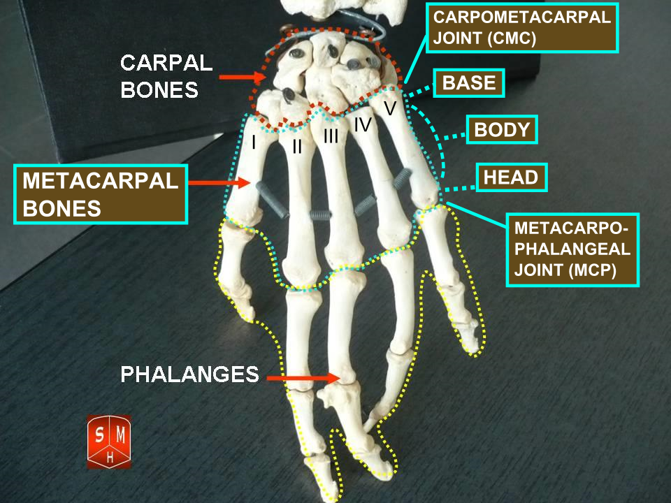 Metacarpus